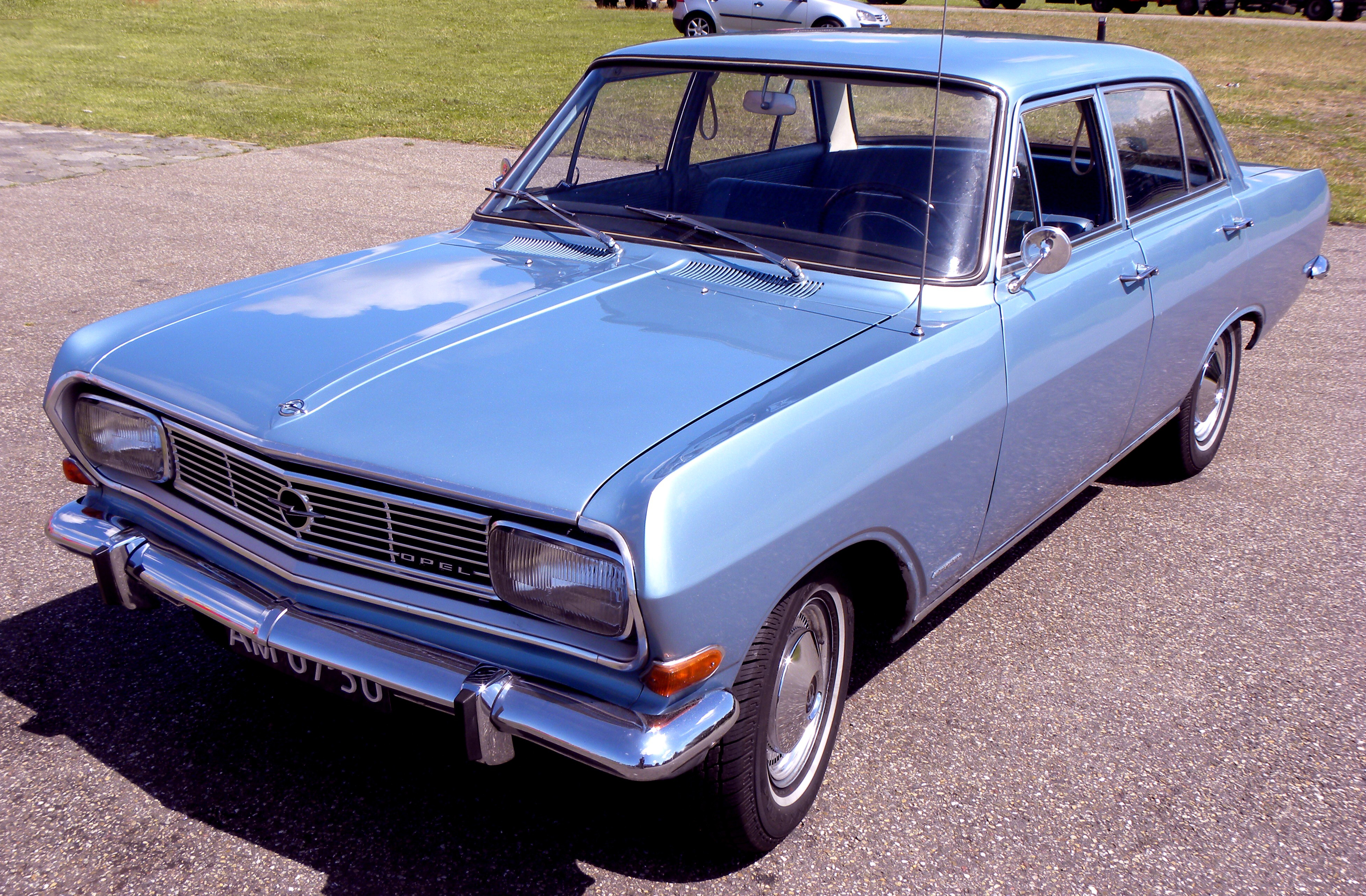 Opel Record B 1900 build from 1966 to 1967